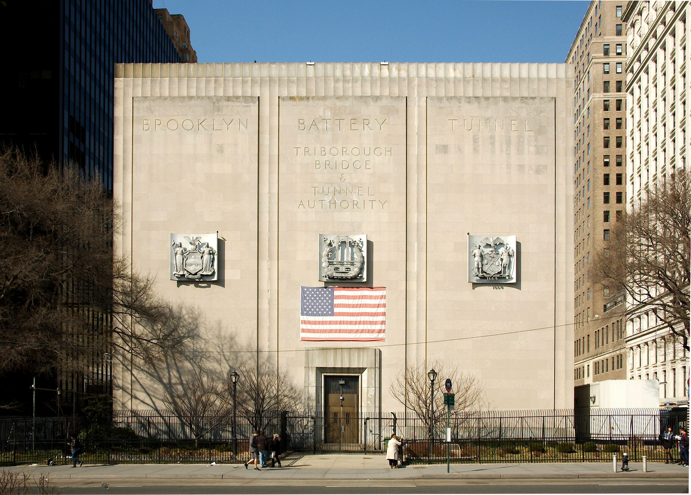 Battery Place side of the Brooklyn Battery Tunnel portal building